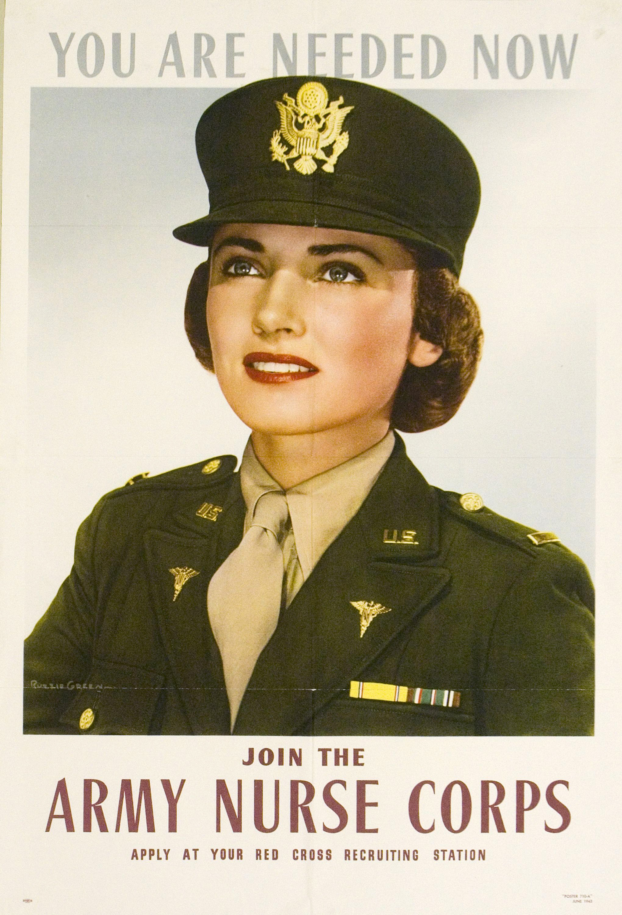 Poster encouraging women to join the U.S. Army Nurse Corps during World War II. Interested citizens could apply at Red Cross recruiting stations.